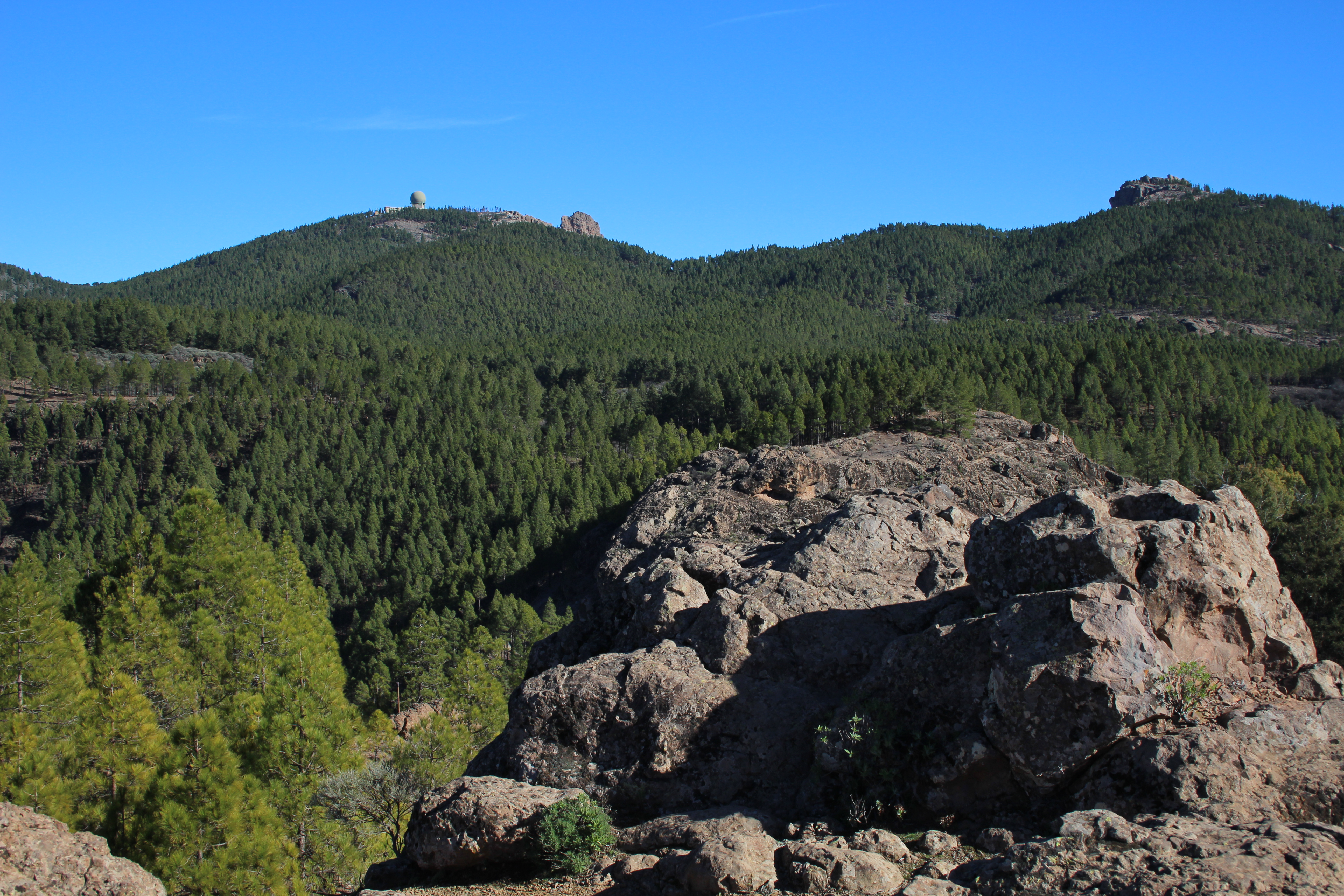 Cumbres, Gran Canaria. This is a photography of a Site of Community Importance in Spain with the ID: ES7010039. Natura2000 entry, EEA entry